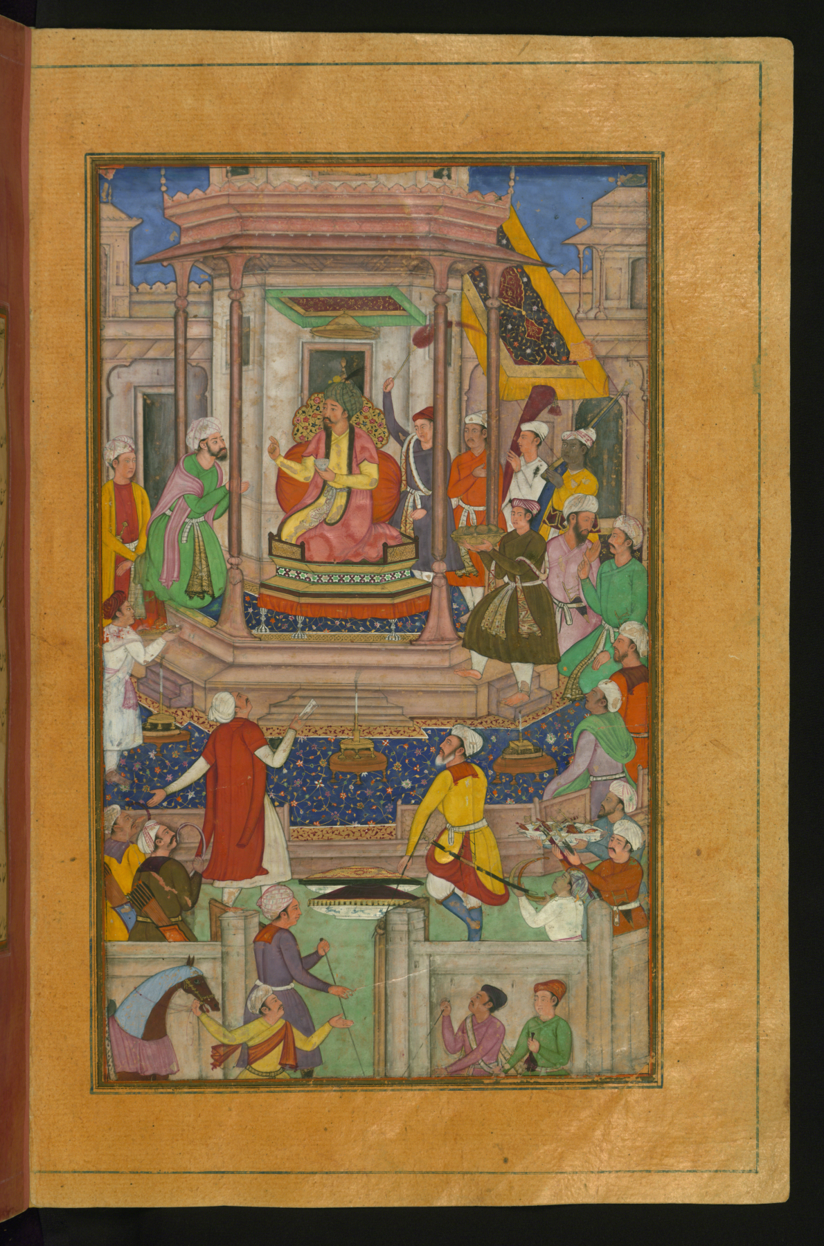 This folio from Walters manuscript W.596 depicts Babur being entertained in Ghazni by Jahangir Mirza.